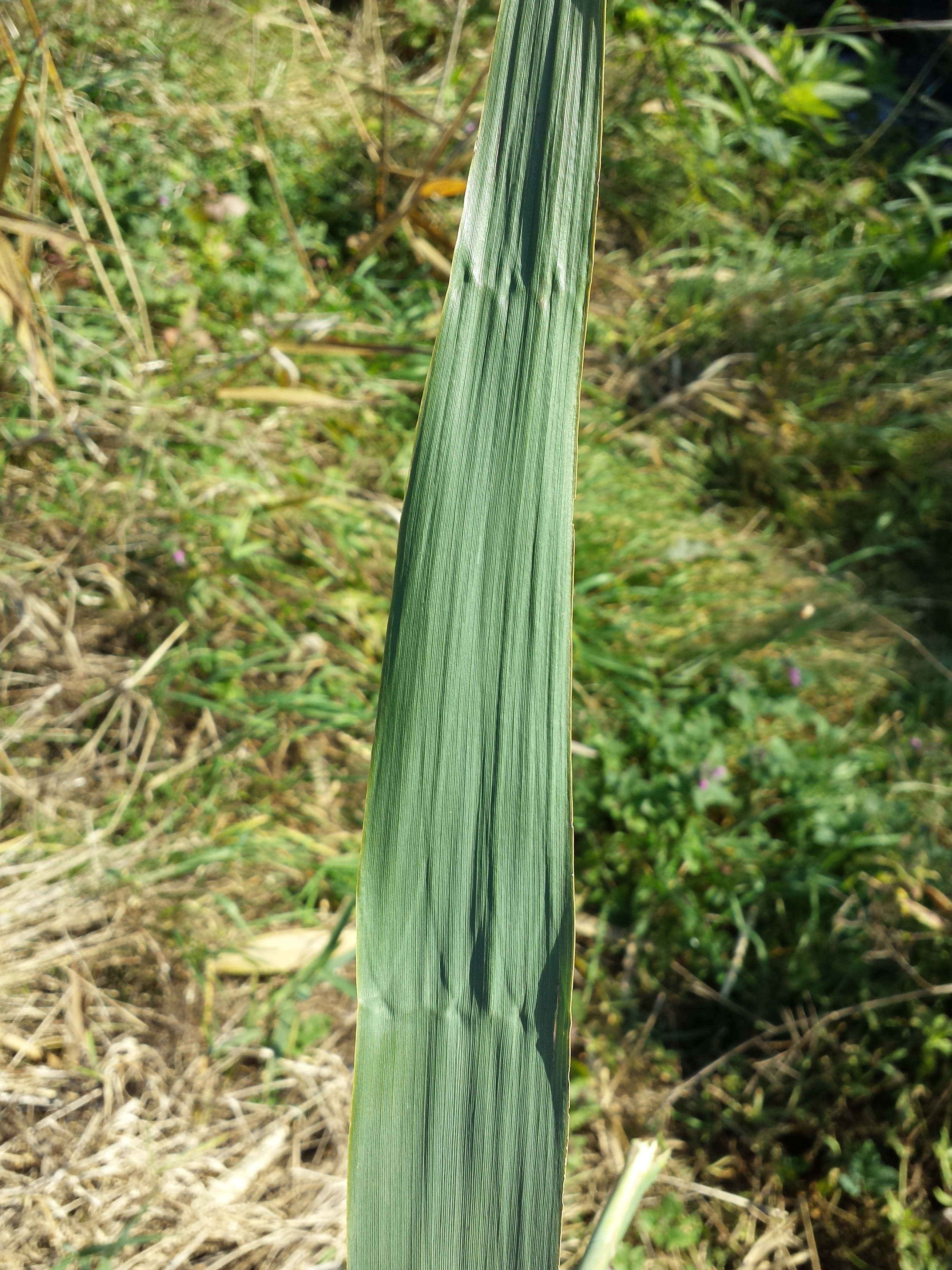 Leaf with transverse fold Taxonym: Phragmites australis ss Fischer et al. EfÖLS 2008 ISBN 978-3-85474-187-9 Location: near Bruderndorf, district Korneuburg, Lower Austria - ca. 215 m a.s.l. Habitat: brookside